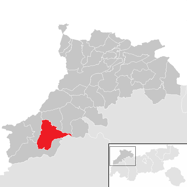 District Reutte